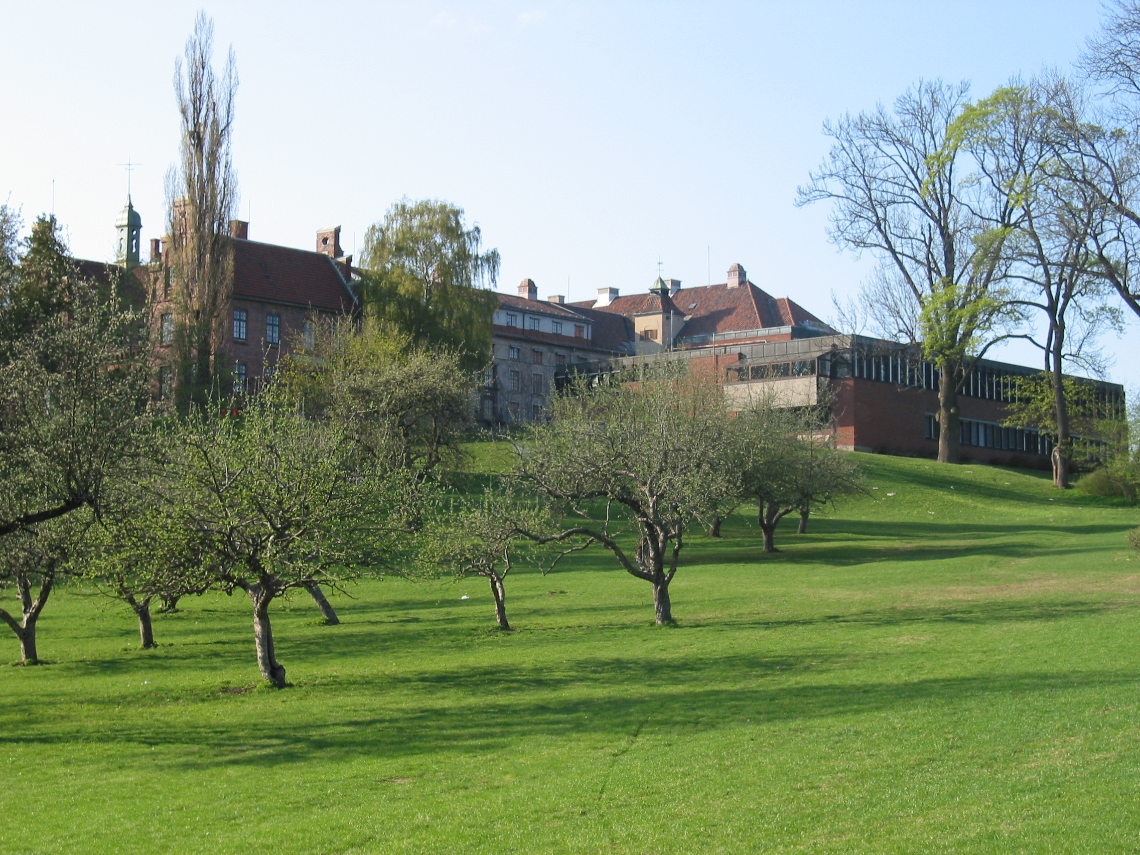 The former Øvre Stabekk farm/Norwegian State College for Domestic Science Teachers with the garden (formerly farm) in front.